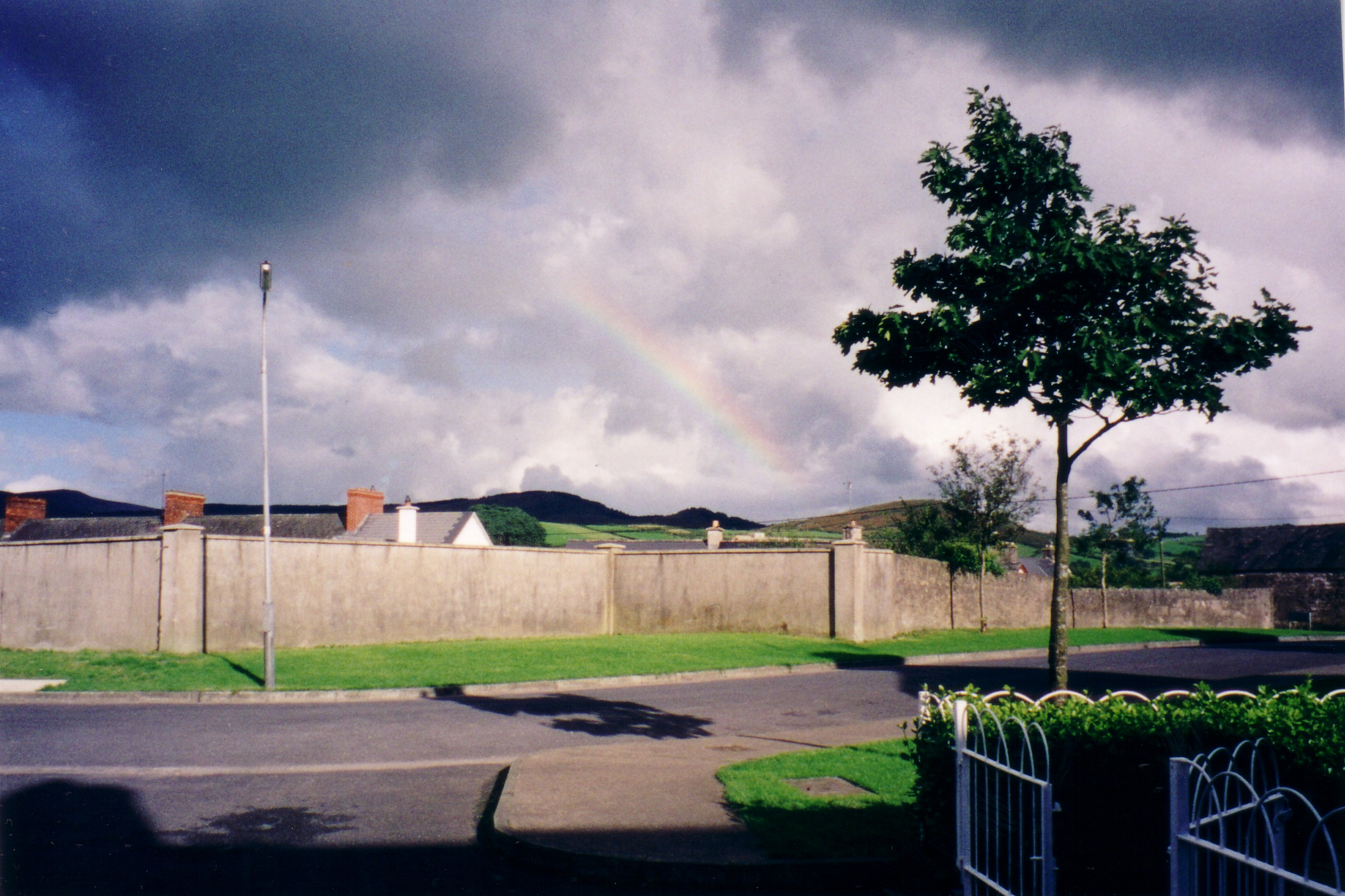 Photo taken by me